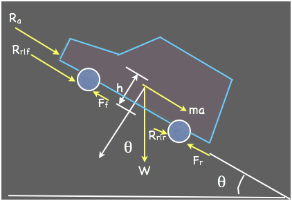 AASHTO Stopping Sight Distance forces